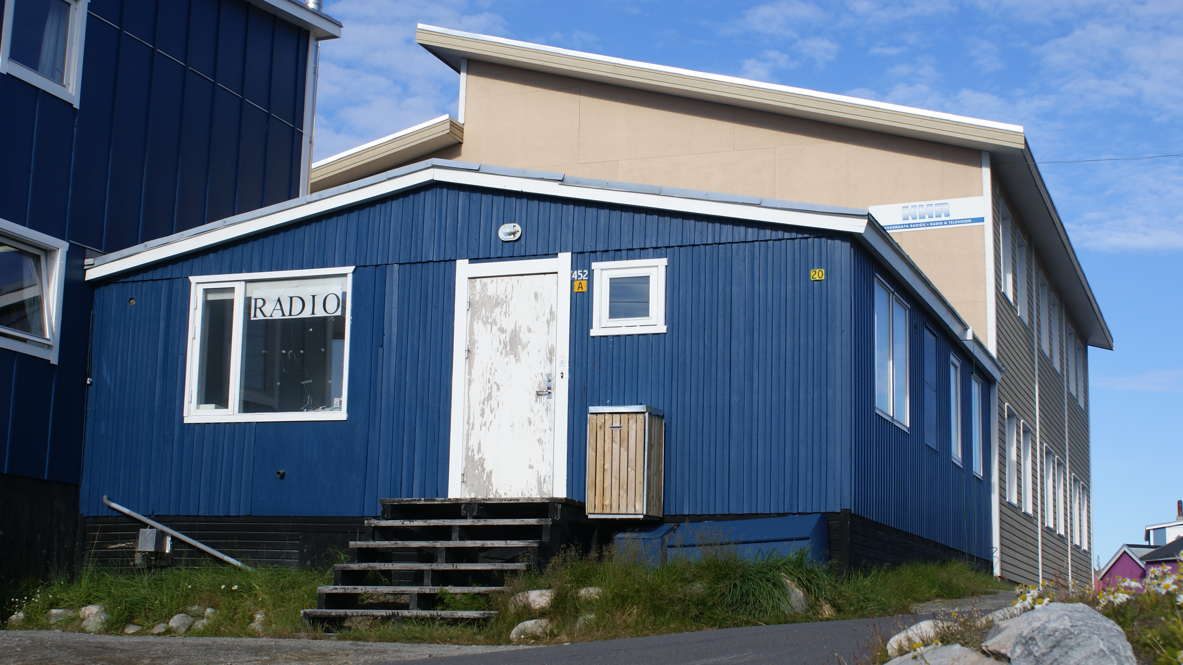 KNR branch, Ilulissat, Greenland.